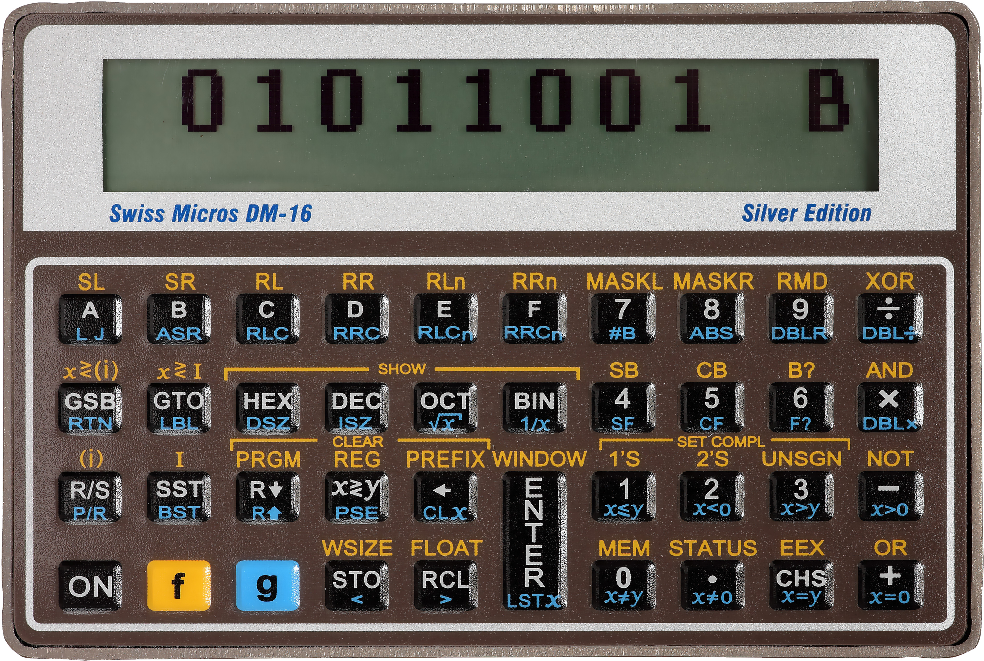 Programmable Calculator DM-16 by Swiss Micros. Replica of Hewlett-Packards HP-16C, introduced in 1982. Swiss Micros claims to use same Code and functions on DM-16 as on HP-16C, which are running on an emulation of the original microcontroller on ARM at 30× of original speed.